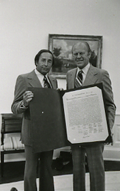 Businessman Richard DeVos and President Gerald Ford holding copy of the Declaration of Independence.